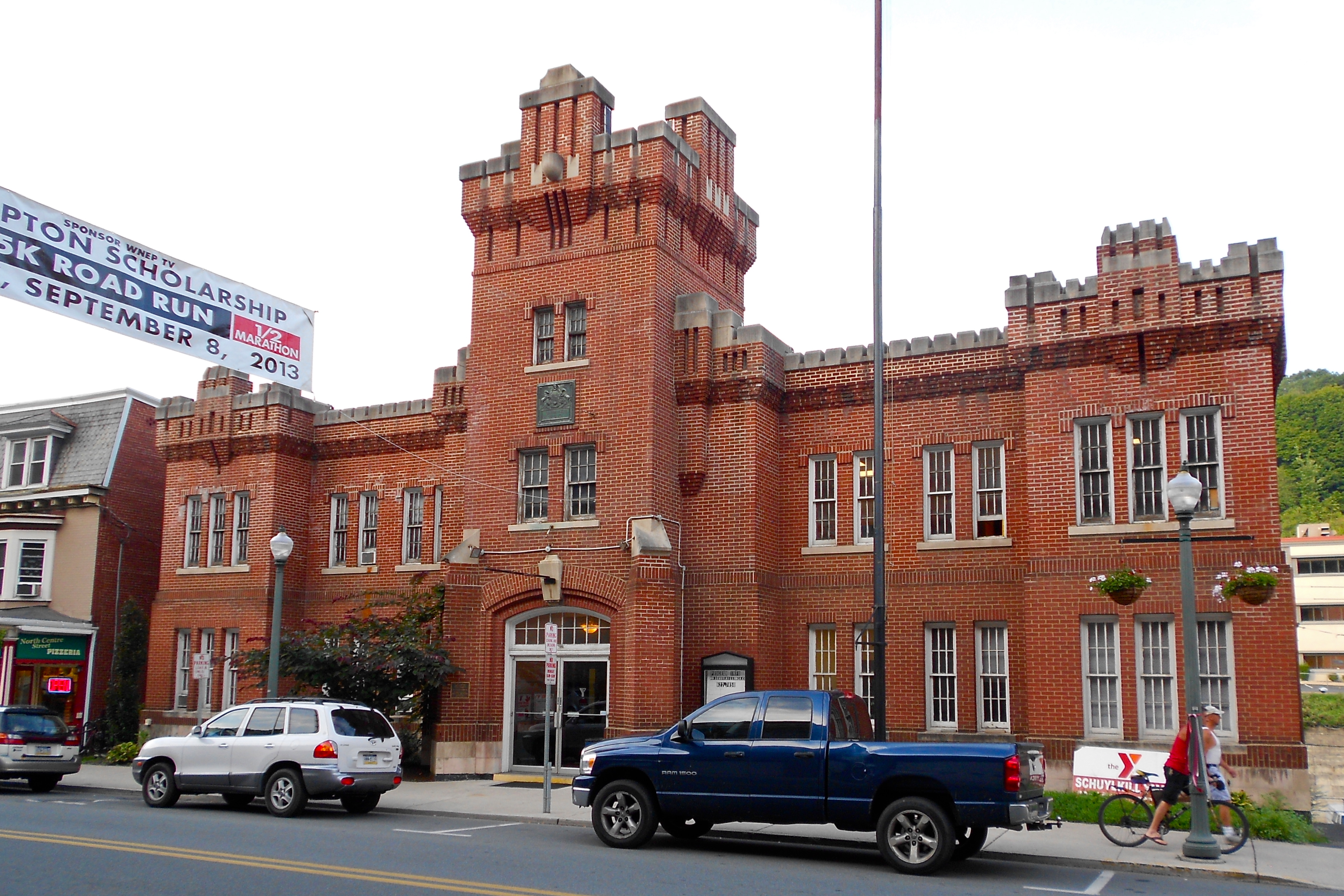 Pottsville Armory, on the NRHP since November 14, 1991. At 502 North Centre Street Pottsville, Schuylkill County, Pennsylvania.